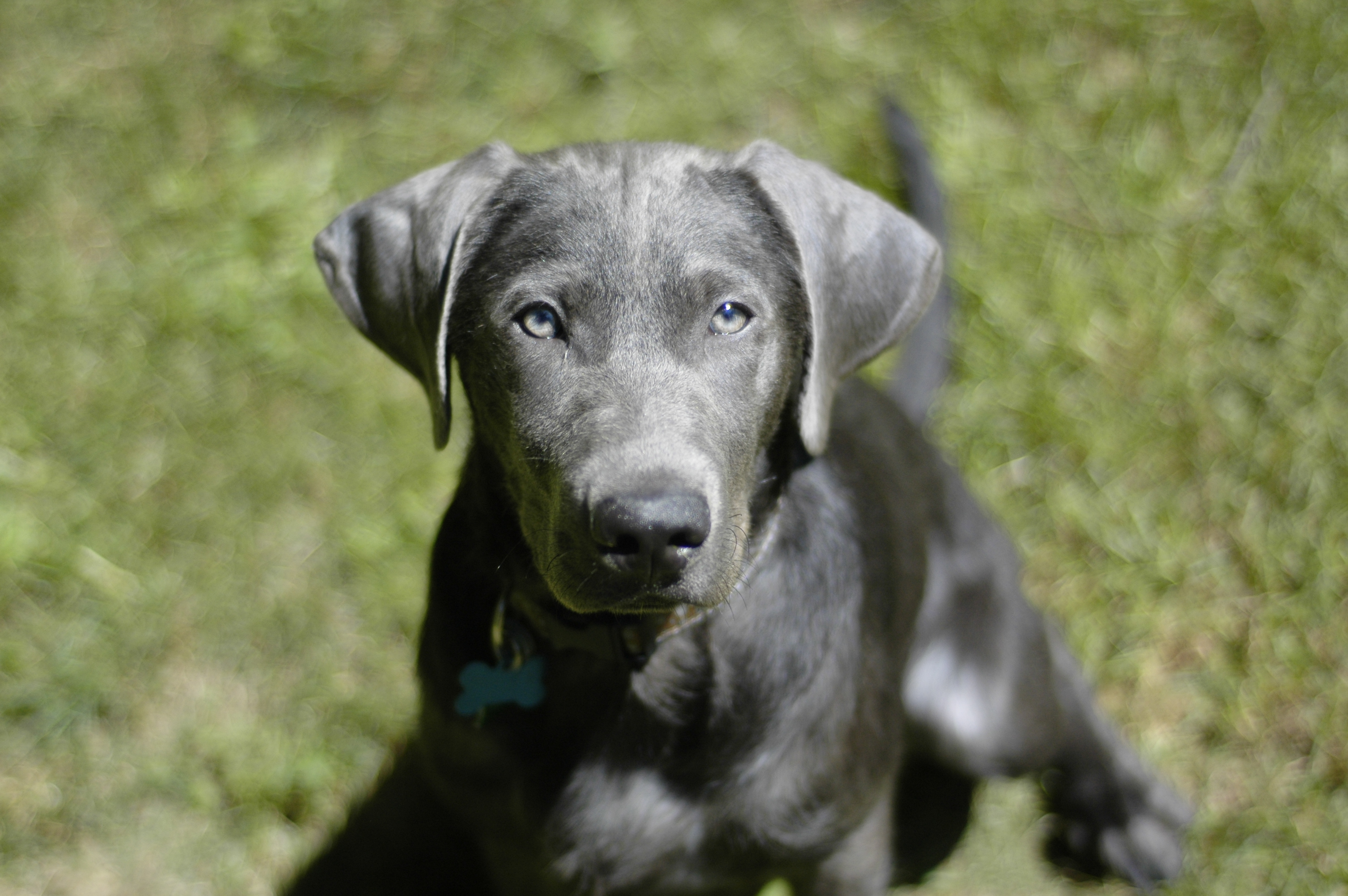 Cooper, a 20-week-old "silver" Labrador Retriever.